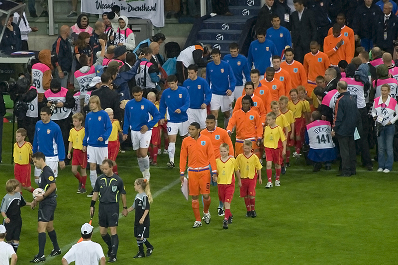 Finals of the 2007 UEFA European Under-21 Football Championship, The Netherlands vs. Serbia. The teams enter the field at the Euroborg, Groningen.